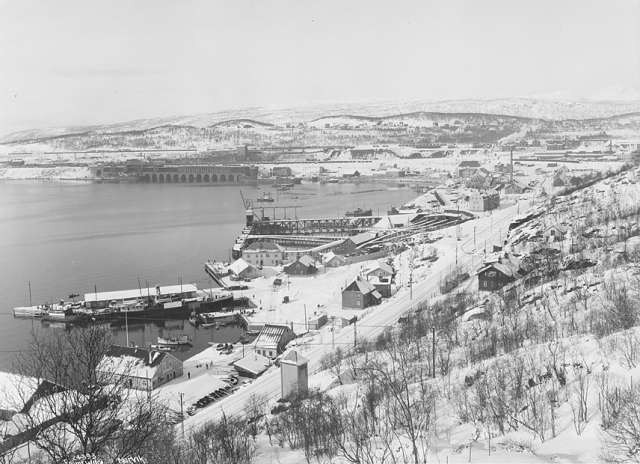 Narvik, Norway in 1924 with the harbor for iron shipments from Kiruna in Sweden.